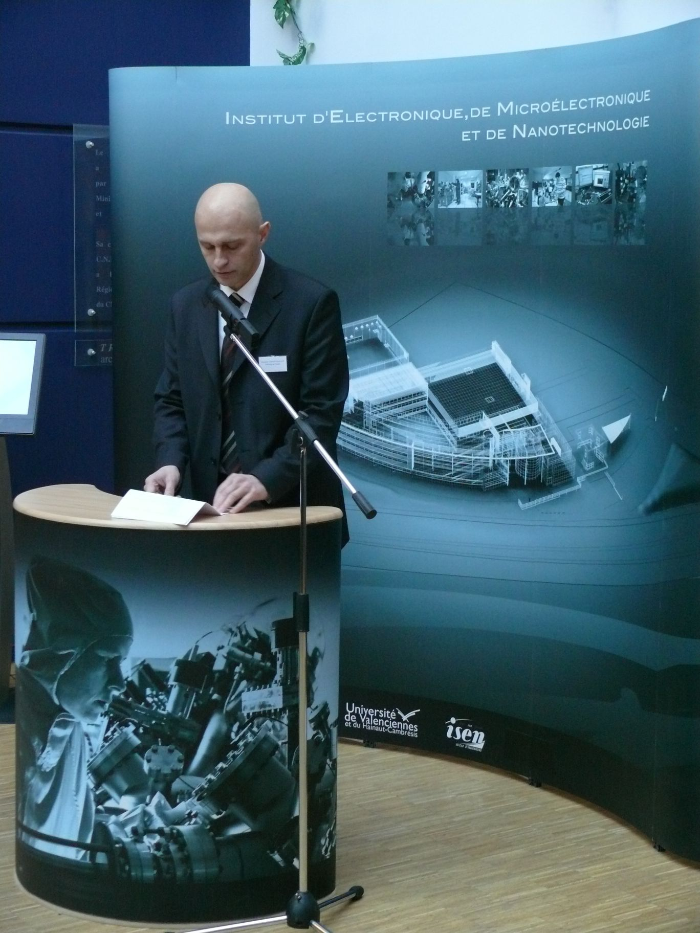 Lionel Buchaillot during the visit of the Minister of Higher Education and Research, Laurent Wauquiez, at IEMN, in Villeneuve-d'Ascq (Nord, France).